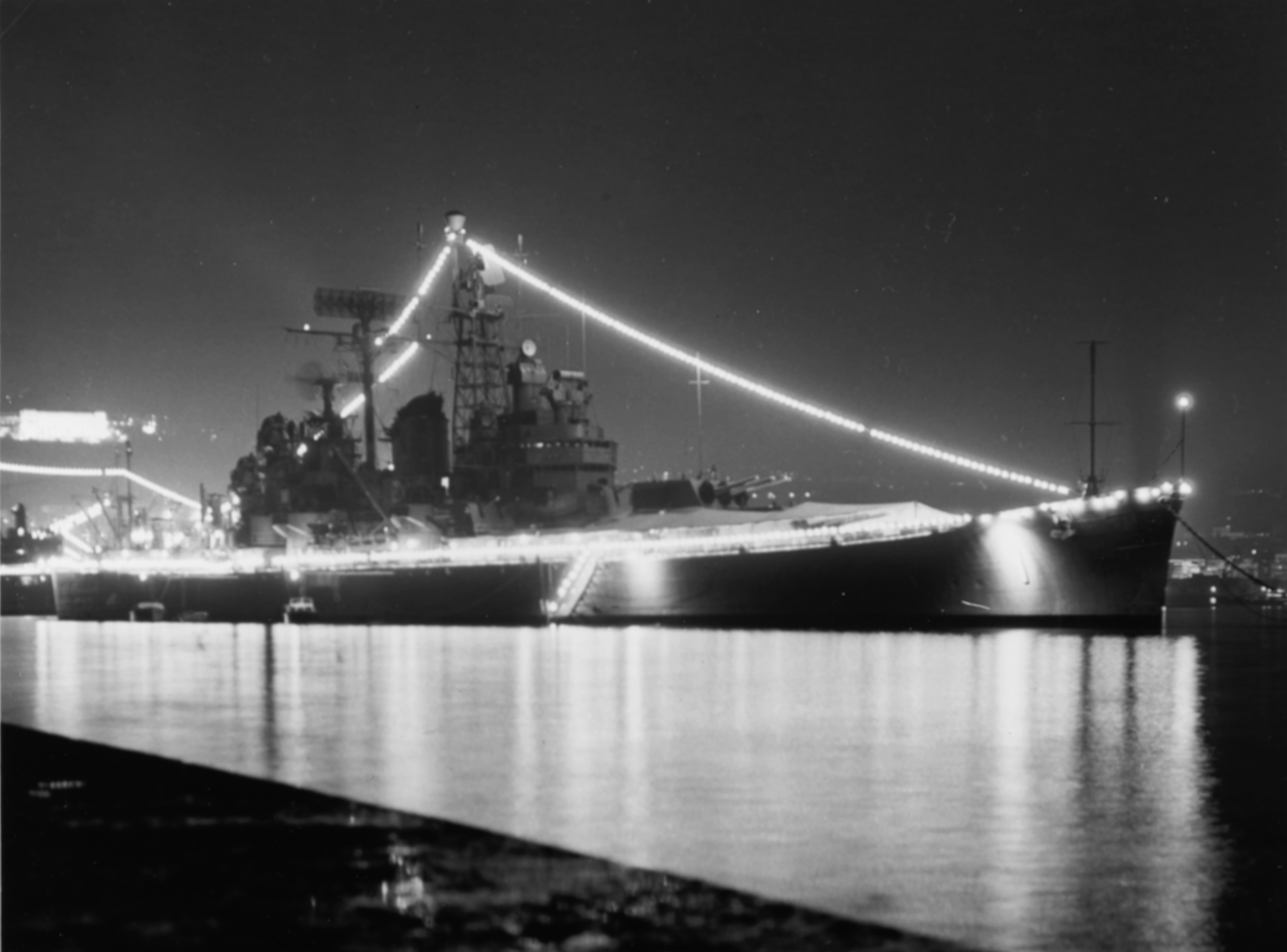 The U.S. Navy guided missile cruiser USS Boston (CAG-1) at Naples, Italy, in October 1964. Original caption: "'Friendship Lights' aboard Boston cast a glow on the waters of the Bay of Naples during CAG-1's October 3-10 visit to 'Bella Napoli'. A tradition among the ships of the Sixth Fleet, the lights symbolize the peaceful intent of the Fleet's mission in the Mediterranean Sea."